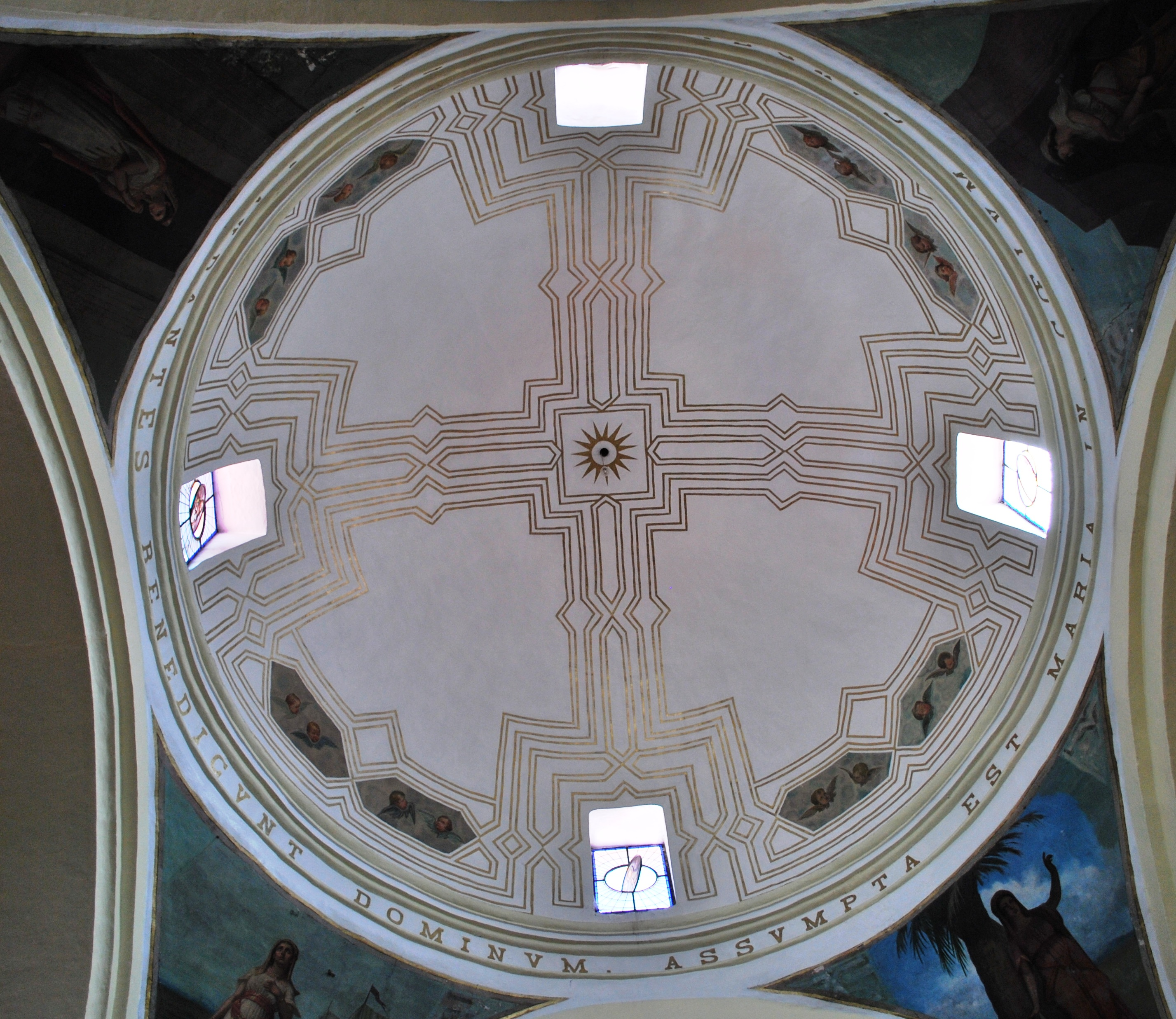 Cupola of the La Asuncion Parish in Pachuca, Hidalgo, Mexico